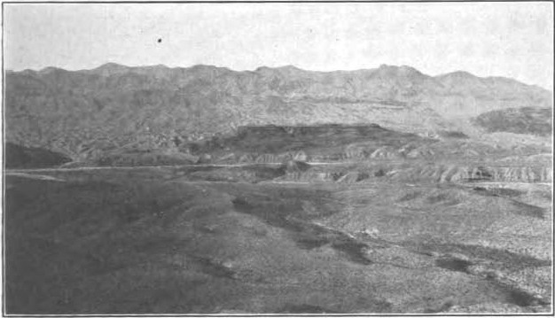 View west across Grand Wash, Nevada. Southern block of Virgin Mountains in background; dissected Quaternary and Pliocene (?) deposits on floor of valley. Basalt lava forms the dark areas west of the wash.